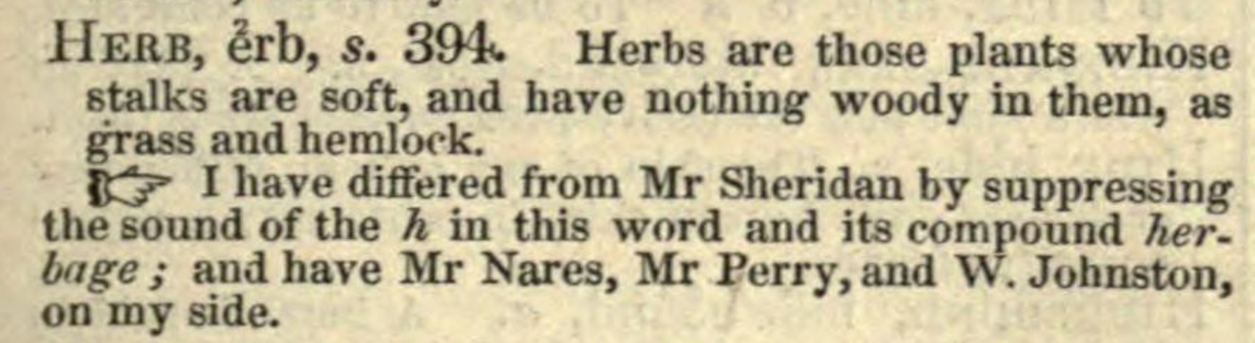 Entry for "Herb" from Walker's Critical Pronouncing Dictionary, (1833 edition, published by Tegg of London), providing evidence that the author "suppress[ed] the sound of the h in this word" -- a pronunciation that later would come to be regarded as characteristically American.